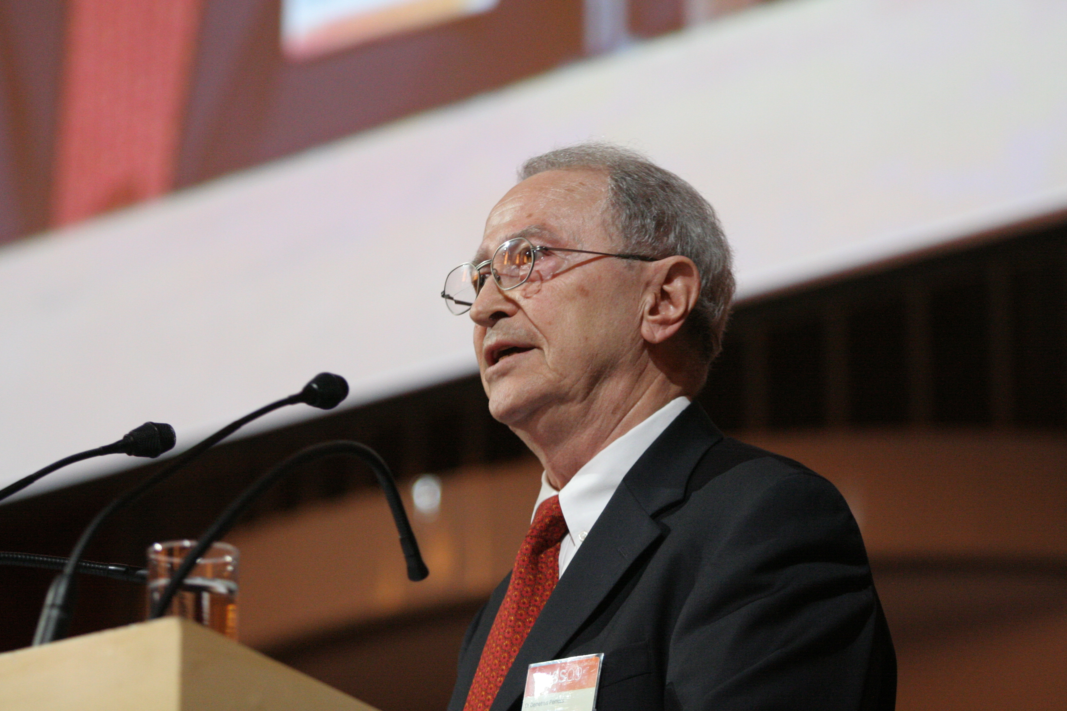 Demetrius Perricos, key lecturer on On-Site Inspection, at the ISS09 Conference at the Hofburg in Vienna, Austria. Copyright CTBTO Preparatory Commission